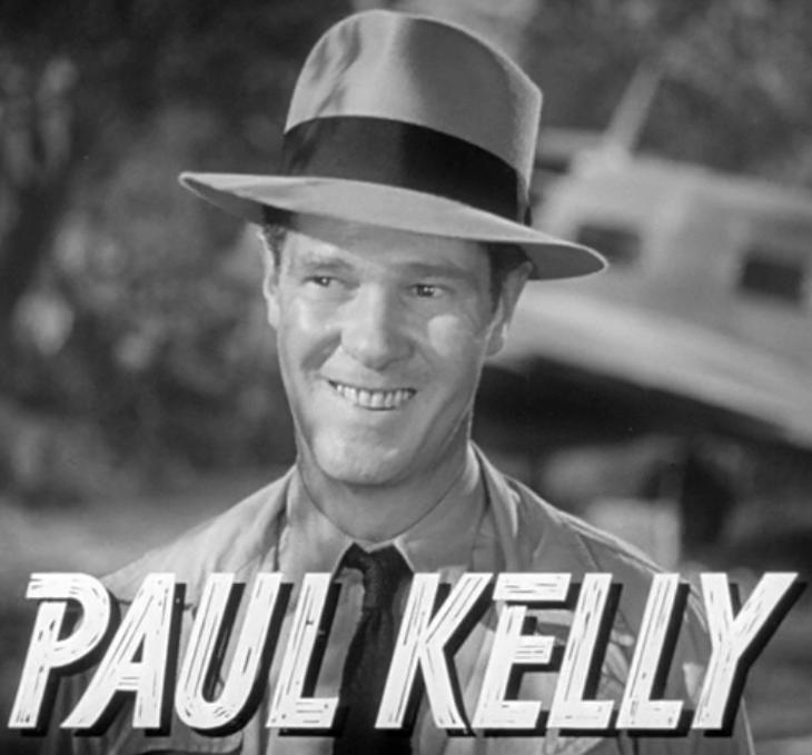 Paul Kelly in Tarzan's New York Adventure - trailer (cropped screenshot)